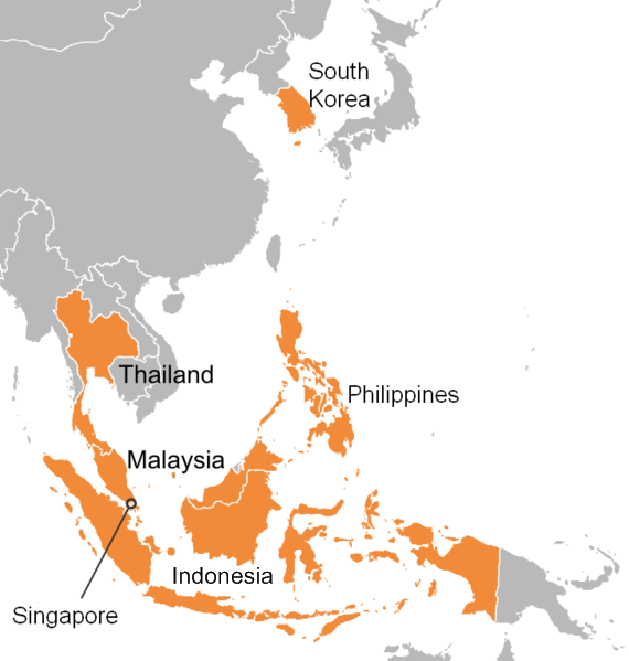 Countries that were most affected by the 1997 Asian Financial Crisis. (English version)